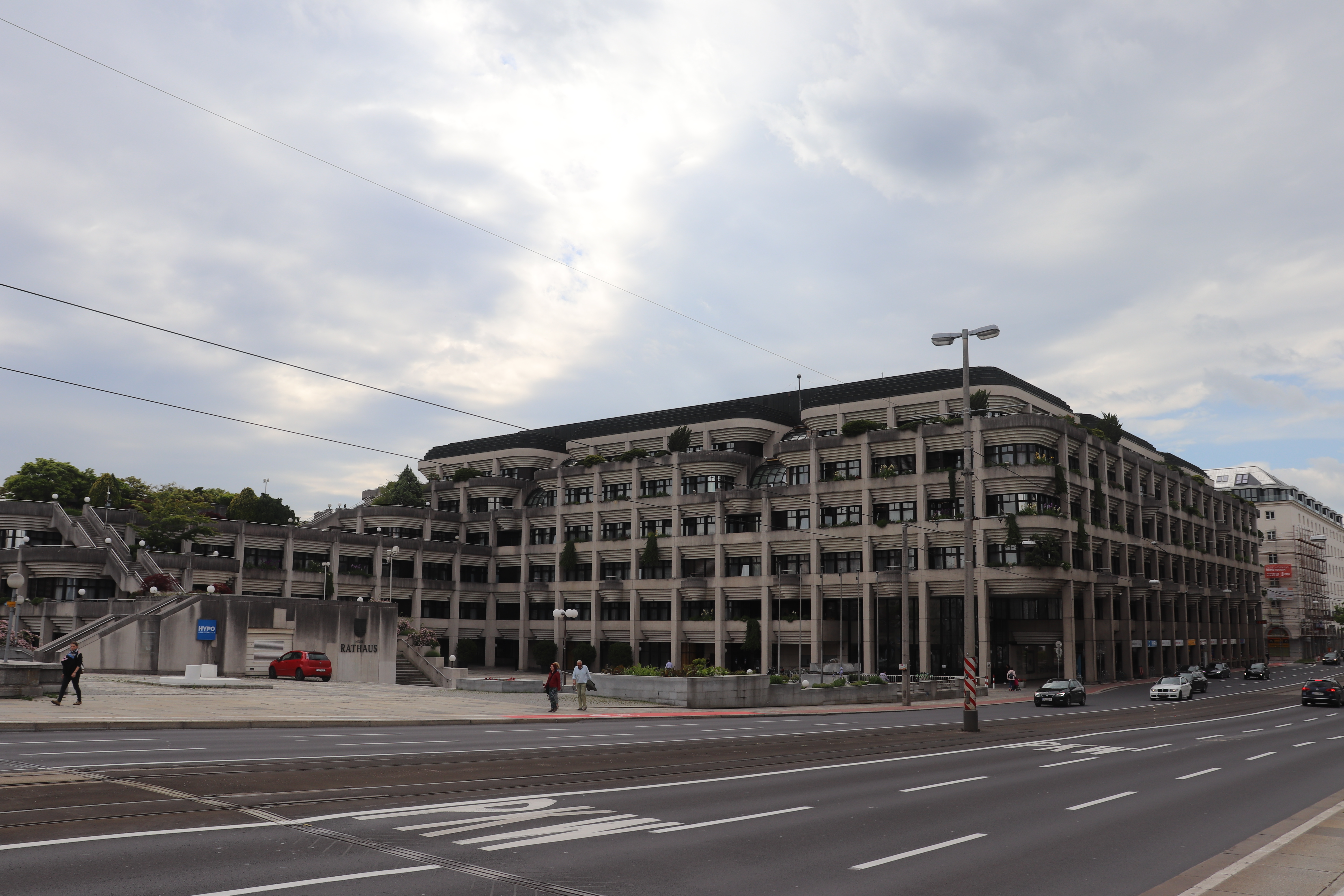 Linz - New Town Hall